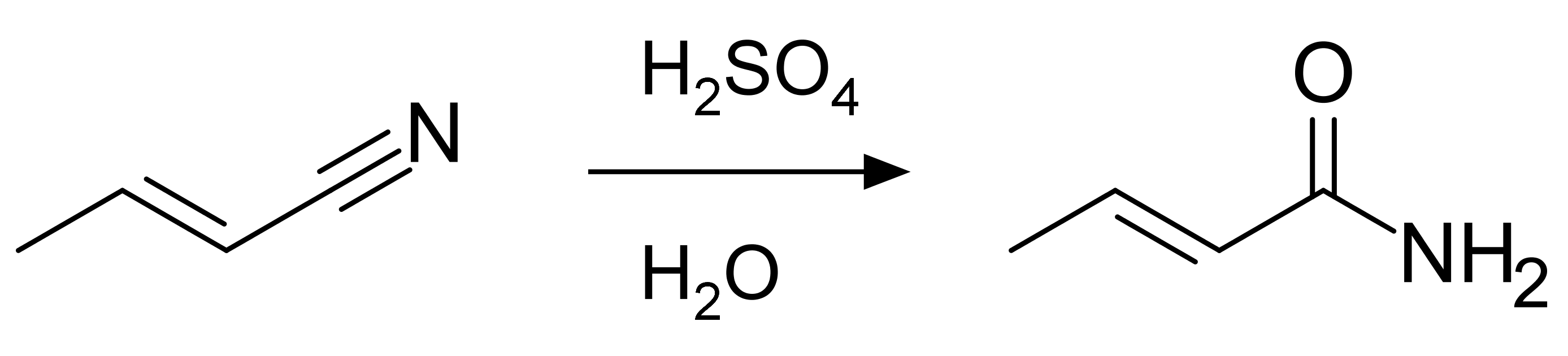 Crotonamide synthesis from hidration of butenenitrile